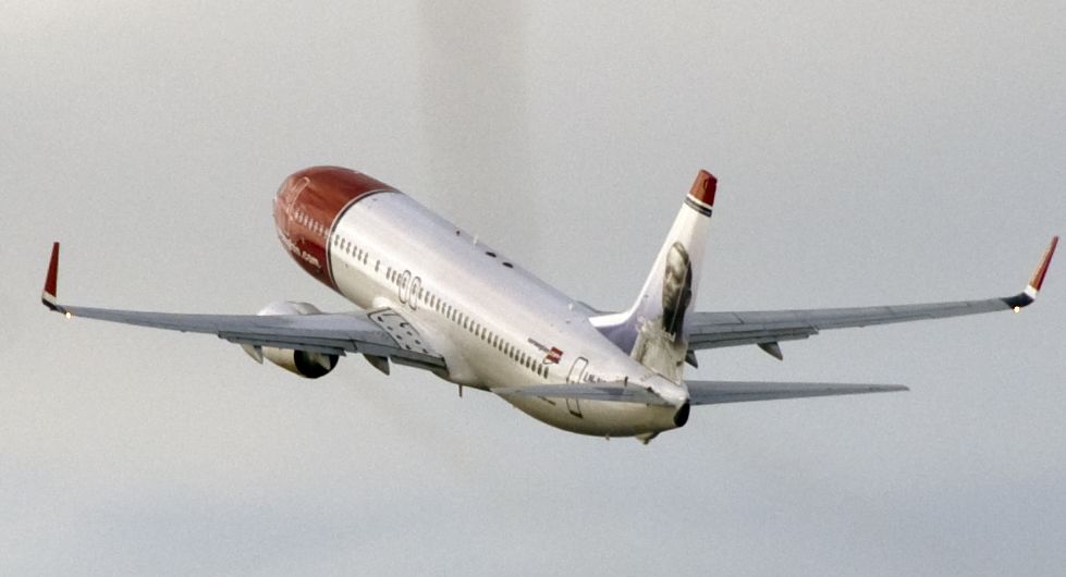 Norwegian Air Shuttle Boeing 737-800 LN-NOO ascending from Trondheim Airport, Værnes